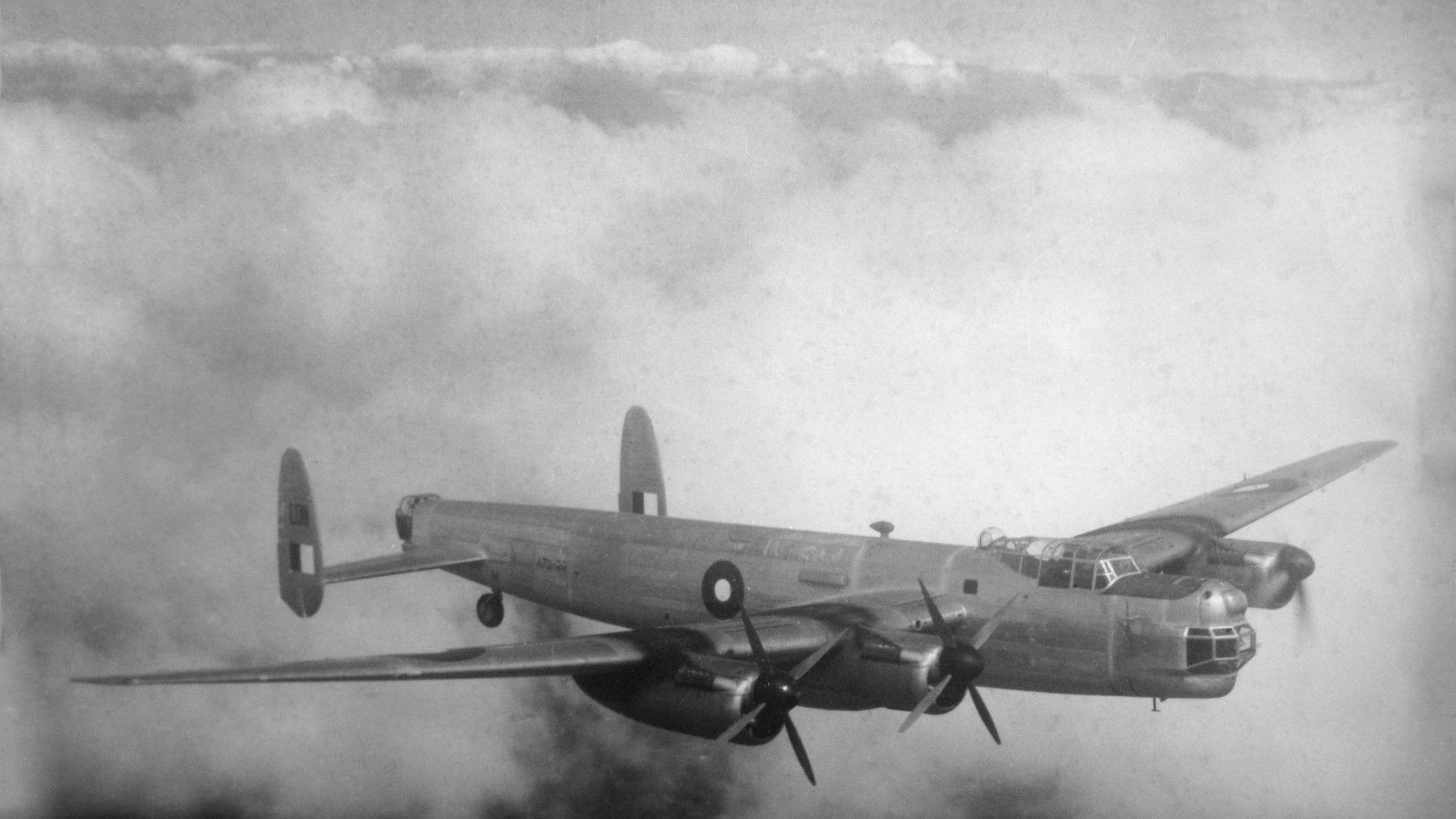 The Avro Lincoln A73-20 being test flown with both starboard engines feathered.